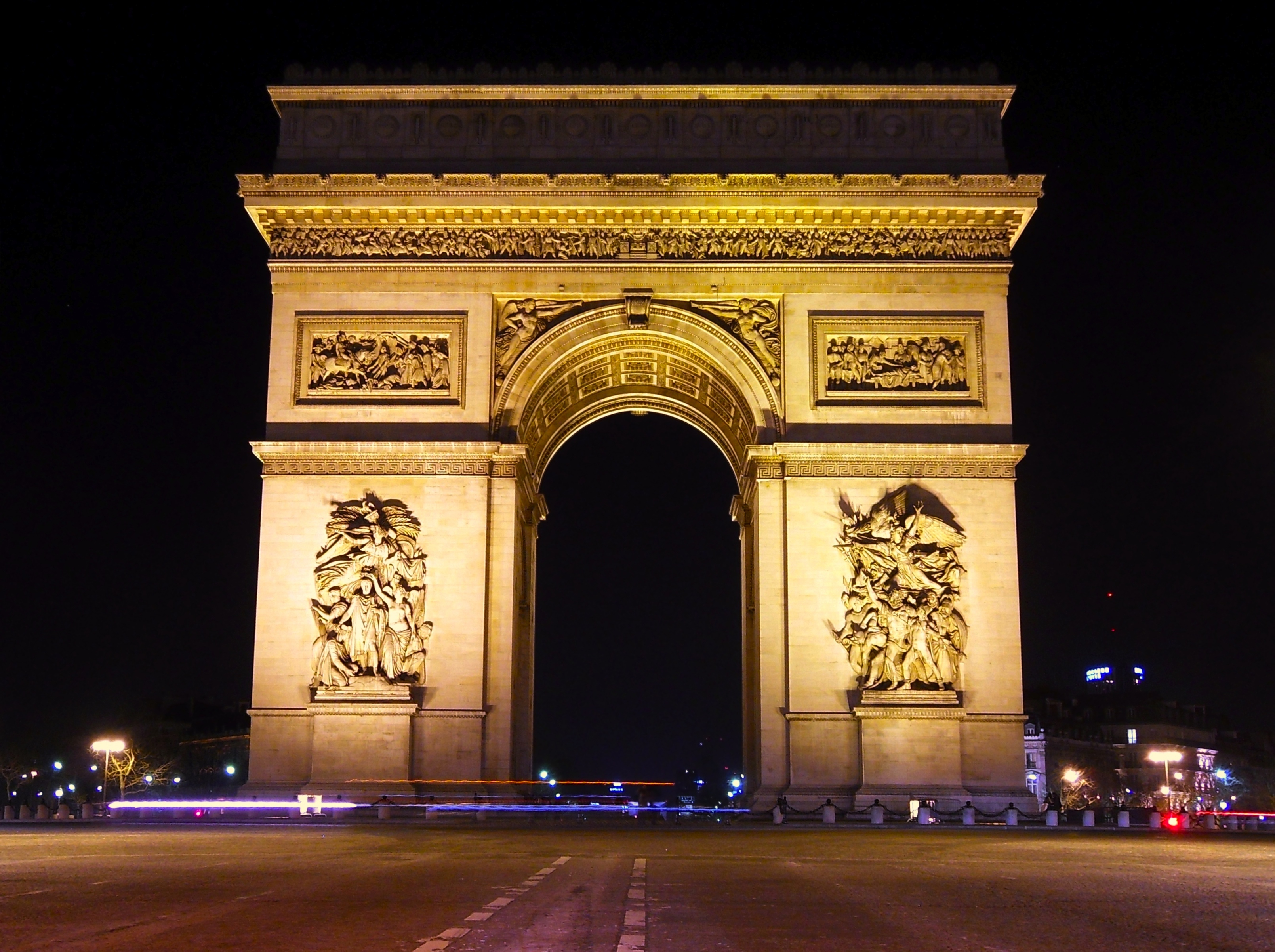 The Arch of Triumph, place Charles de Gaulle, Paris.